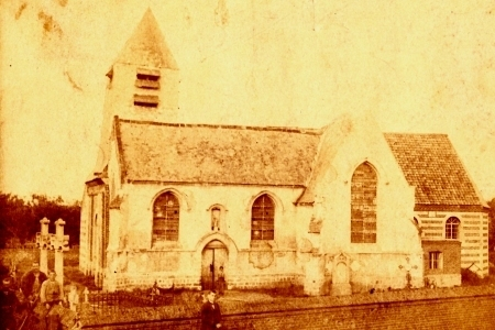 The church in Provin (North of France) that was built in 1728 and destroyed in 1892